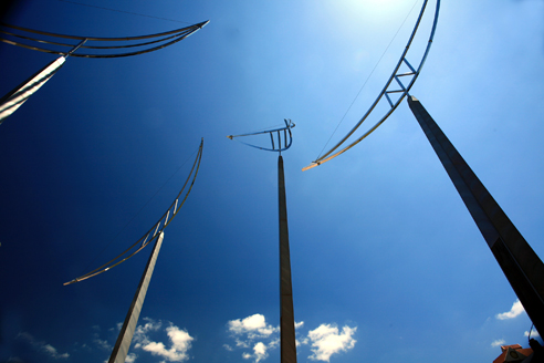 Sculpture Reasons for voyaging, a collaboration between Canterbury sculptor Graham Bennett and architect David Cole, on the forecourt of the Christchurch Art Gallery